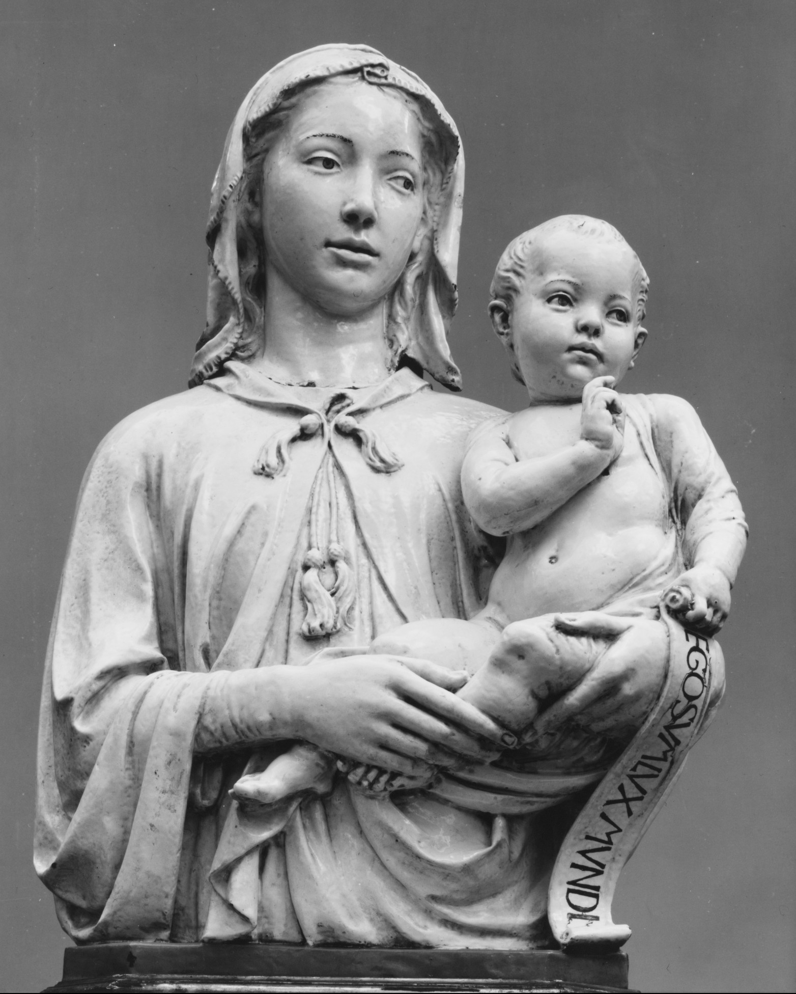 Italian, Florence; High relief; Sculpture